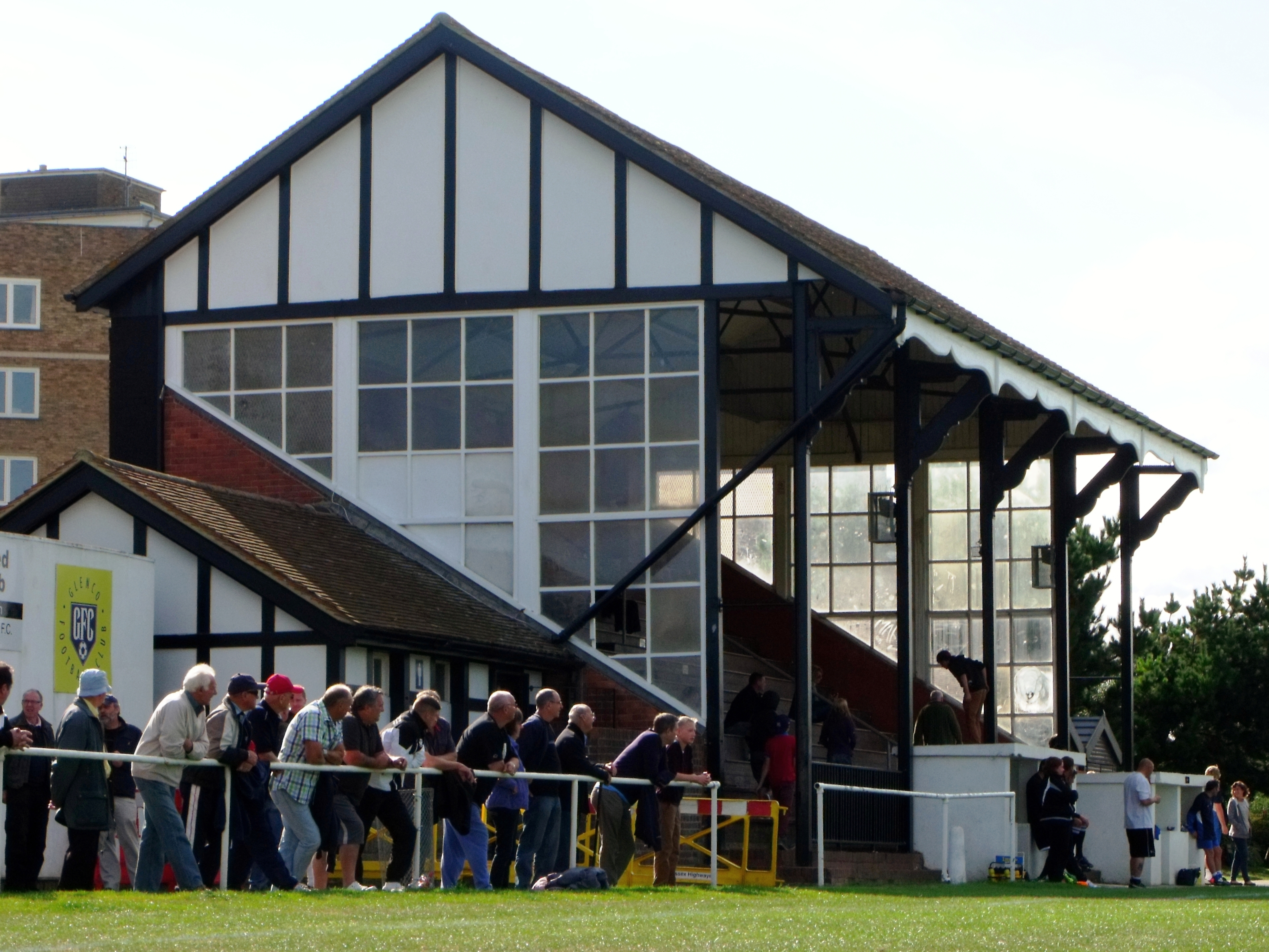 The main stand has recently been modernised, but still retains its delicate beauty.